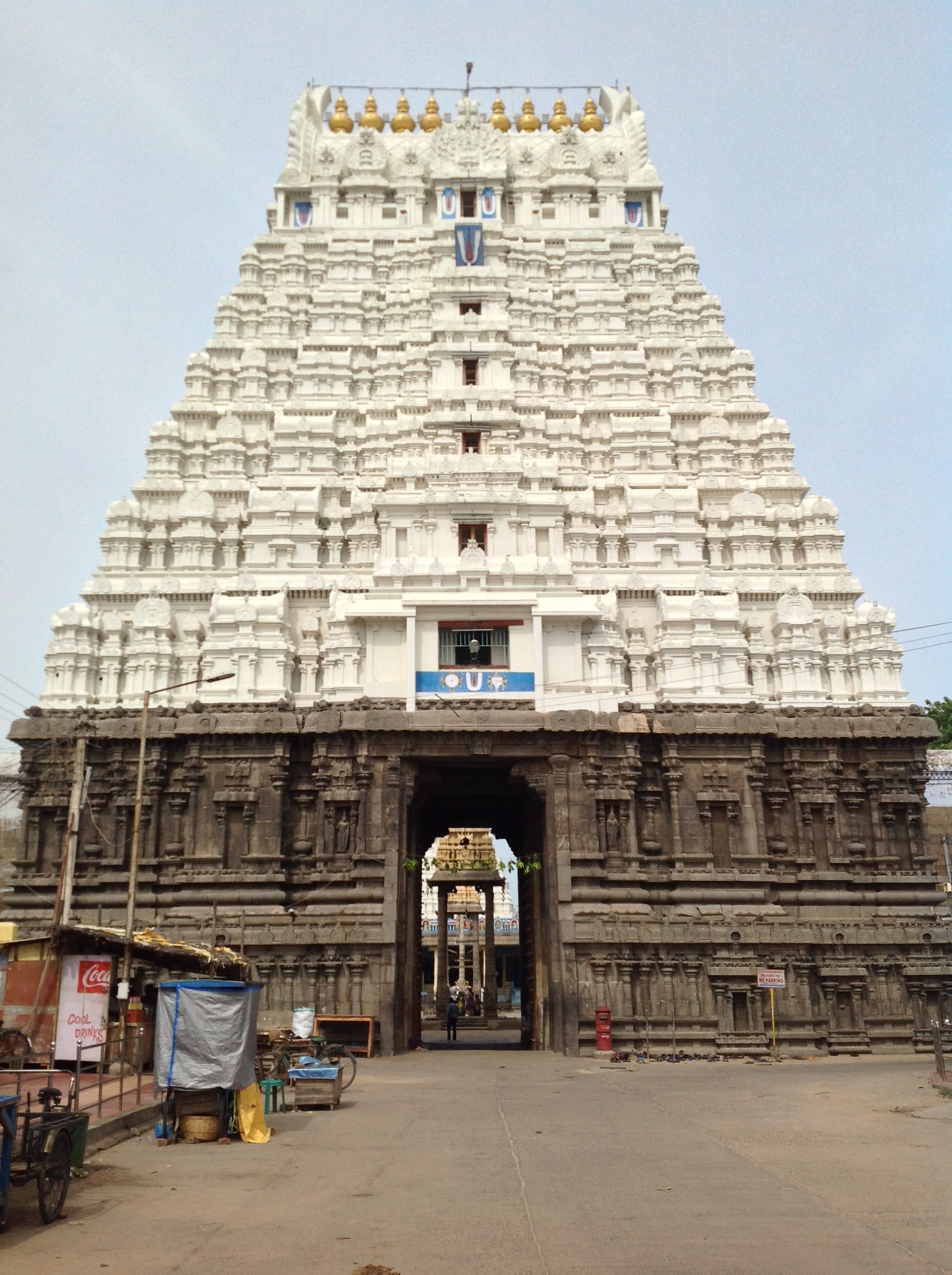 Ekambareswarar Temple in northern Kanchipuram, dedicated to Shiva, is the largest temple in the city.